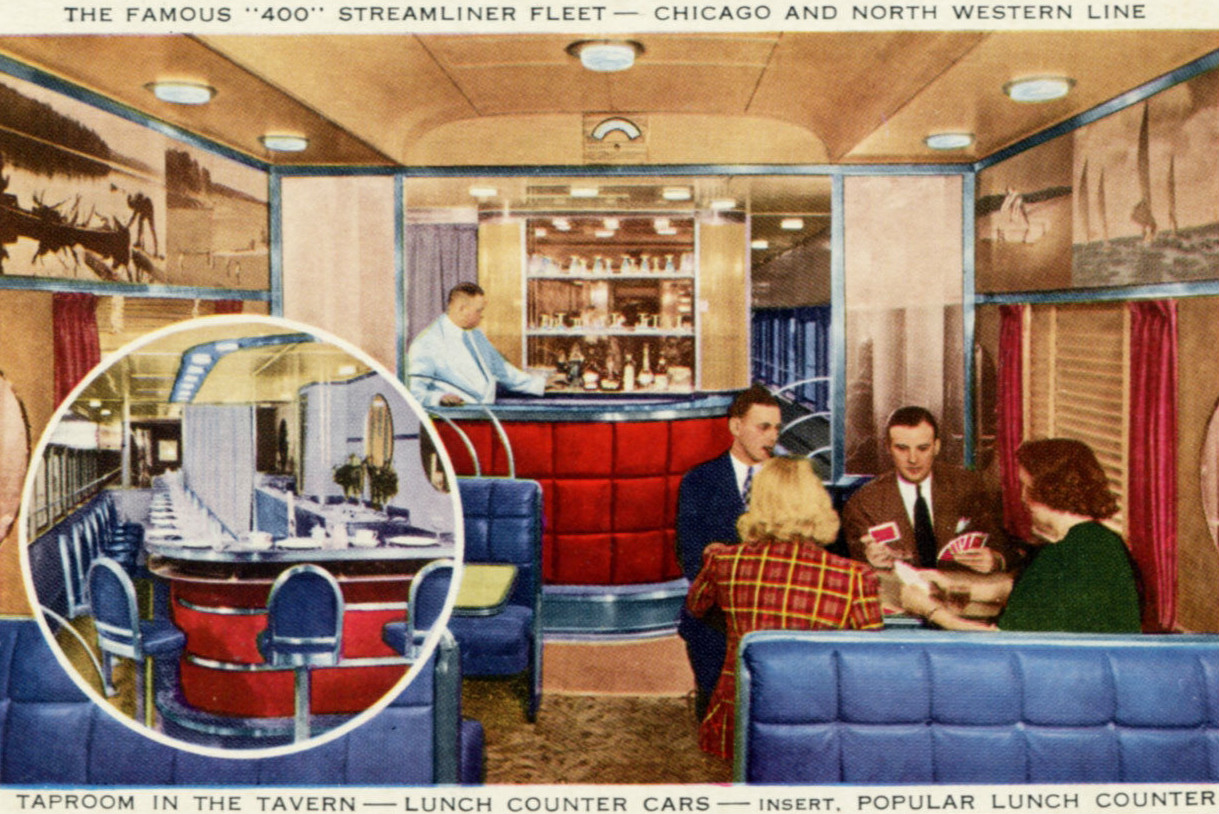 Postcard depiction of the lounge car of the Chicago and North Western Railway's "400" liner circa 1940s. Note that this car now has a speedometer built in over the bar so passengers can see how fast they are traveling.